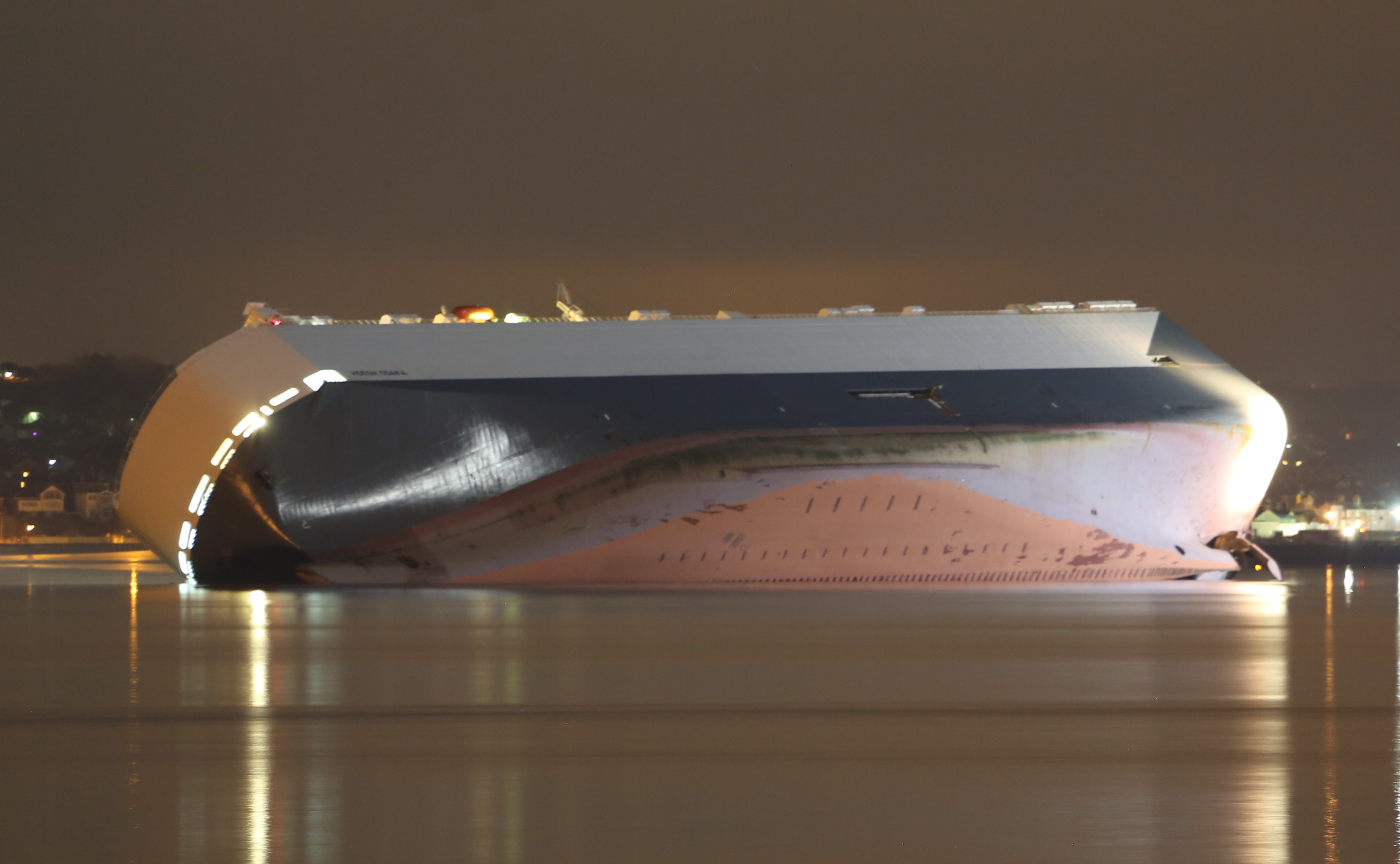 Photo of Hoegh Osaka aground on Bramble Bank